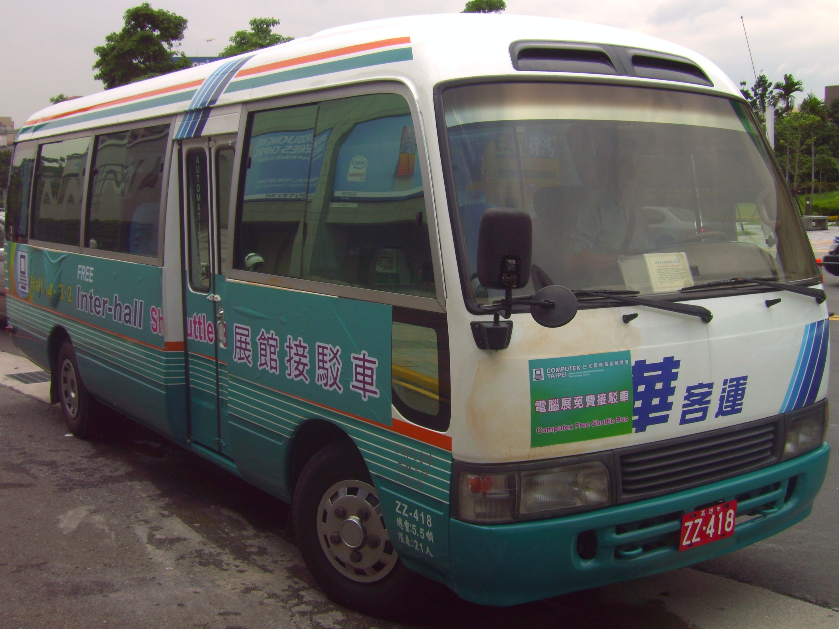 2007 Computex Taipei Day 1: Official Inter-Hall Bus. This minibus is provided by Wenhua Bus Co., Ltd. (Taiwan).